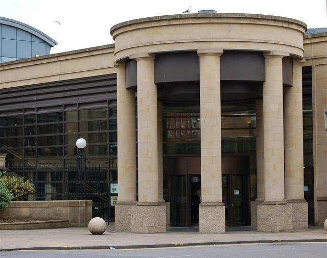 Court entrance The High Court of Justiciary situated in the Saltmarket.